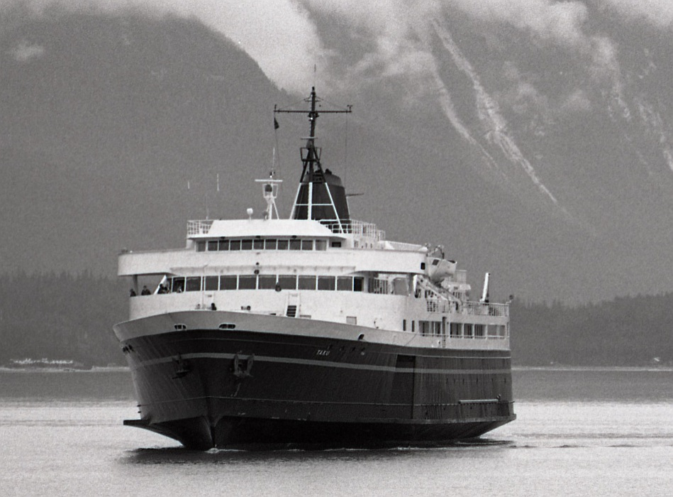 MV Taku (Alaska Marine Highway Ferry) entering Auke Bay